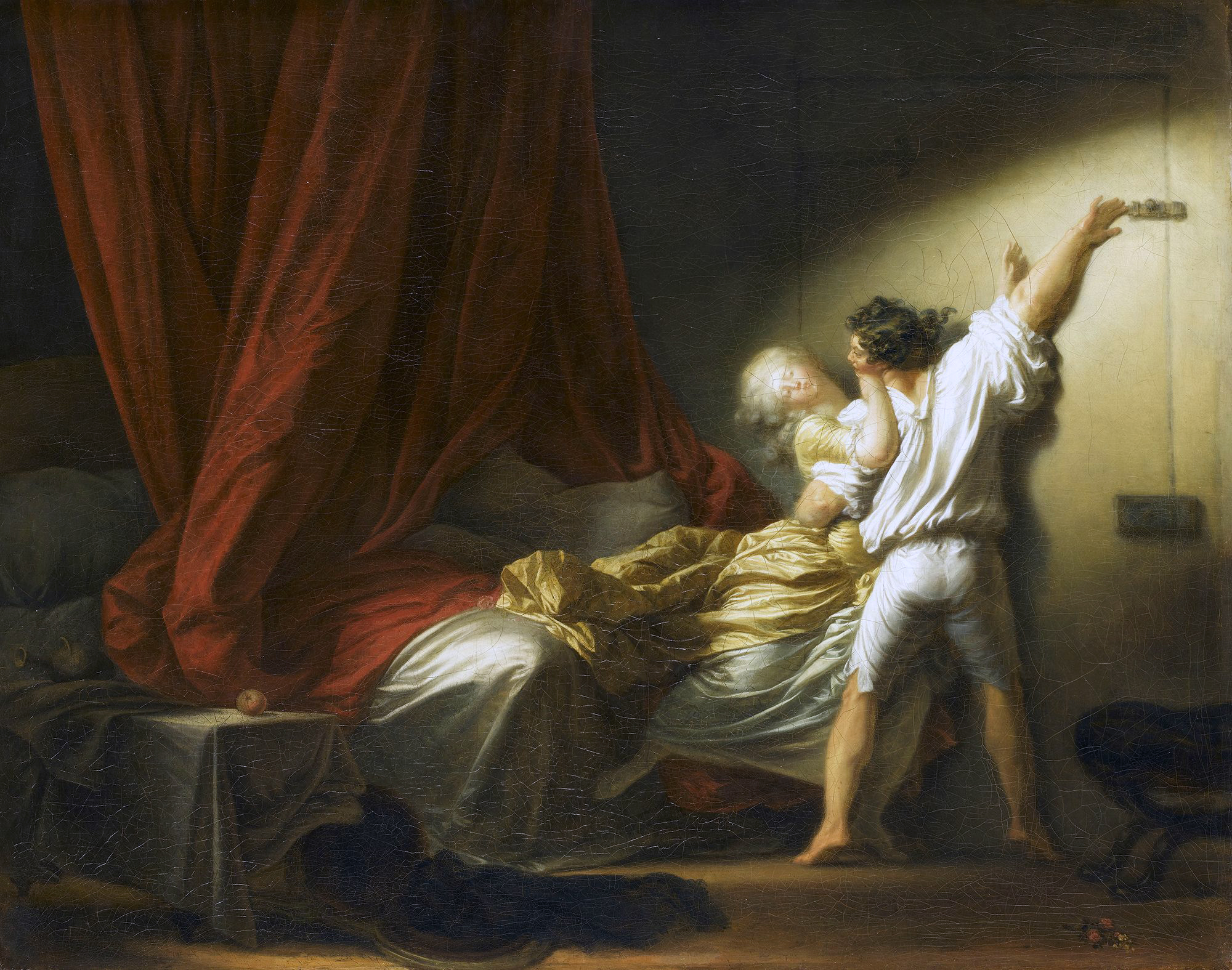 The Bolt